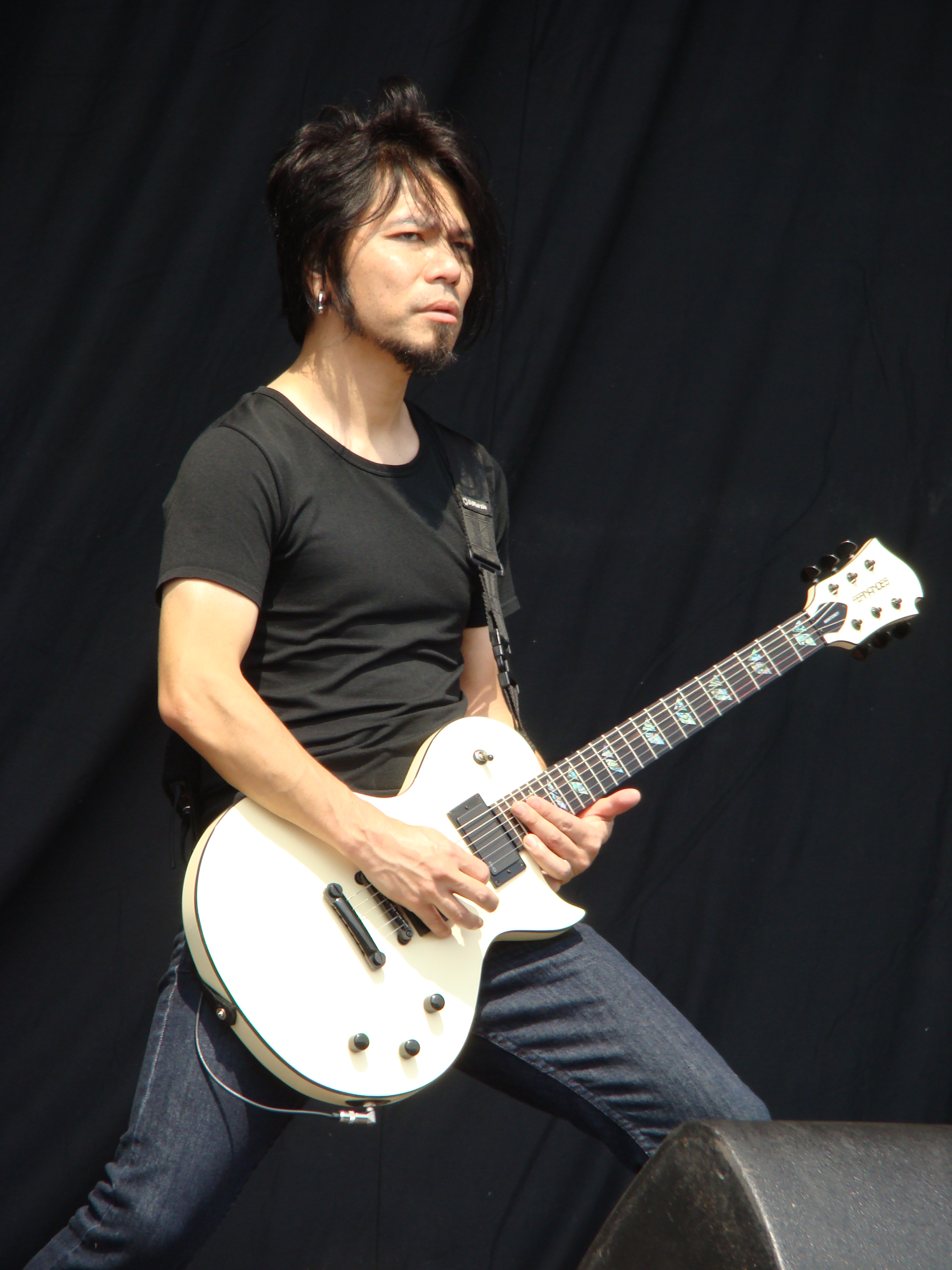 Static-X live @ Gods of Metal